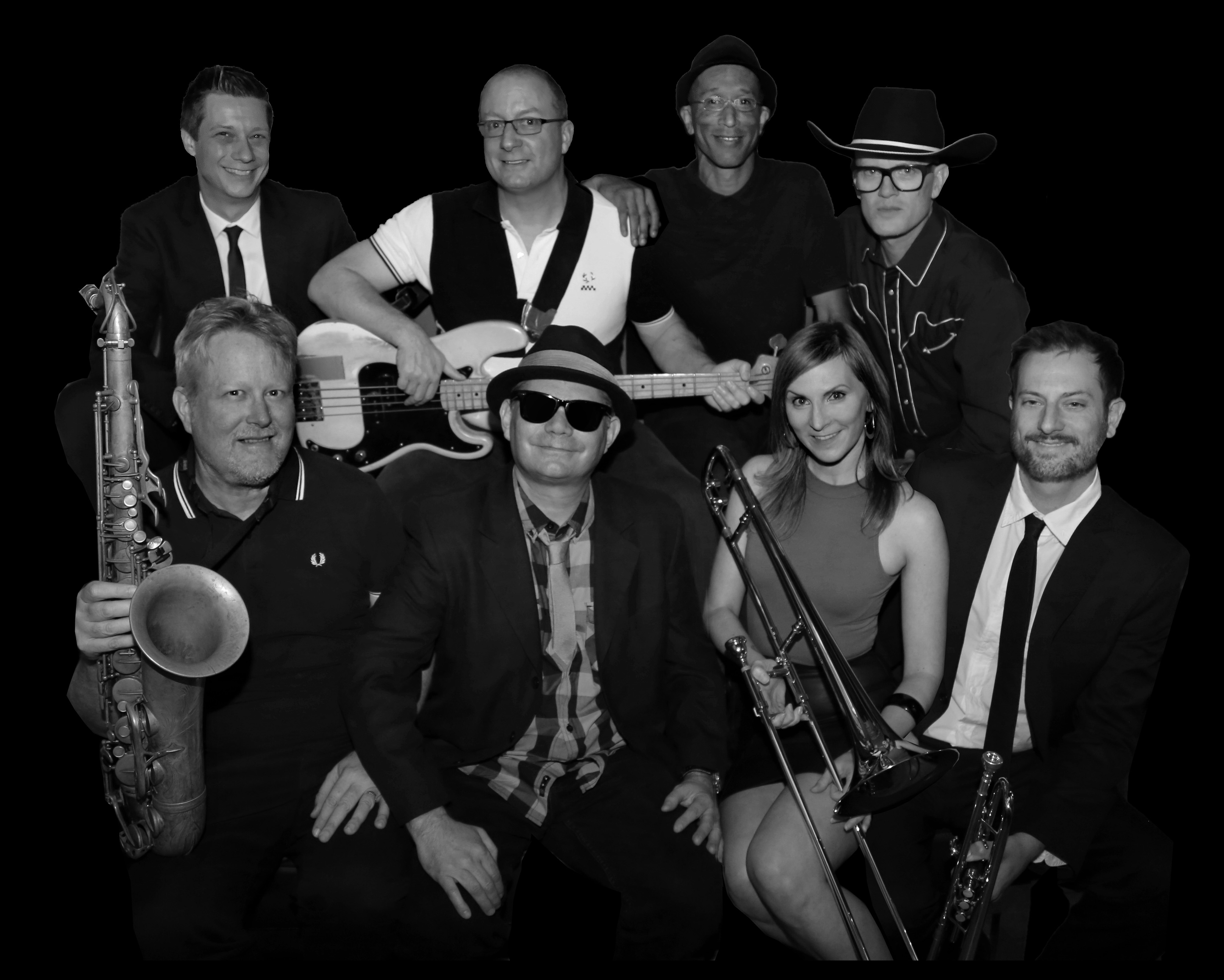 Photo by Andrew Dreskin of The Uptones backstage at Ashkenaz Music and Dance Cafe in Berkeley, minutes before their set on Nov. 5, 2017.